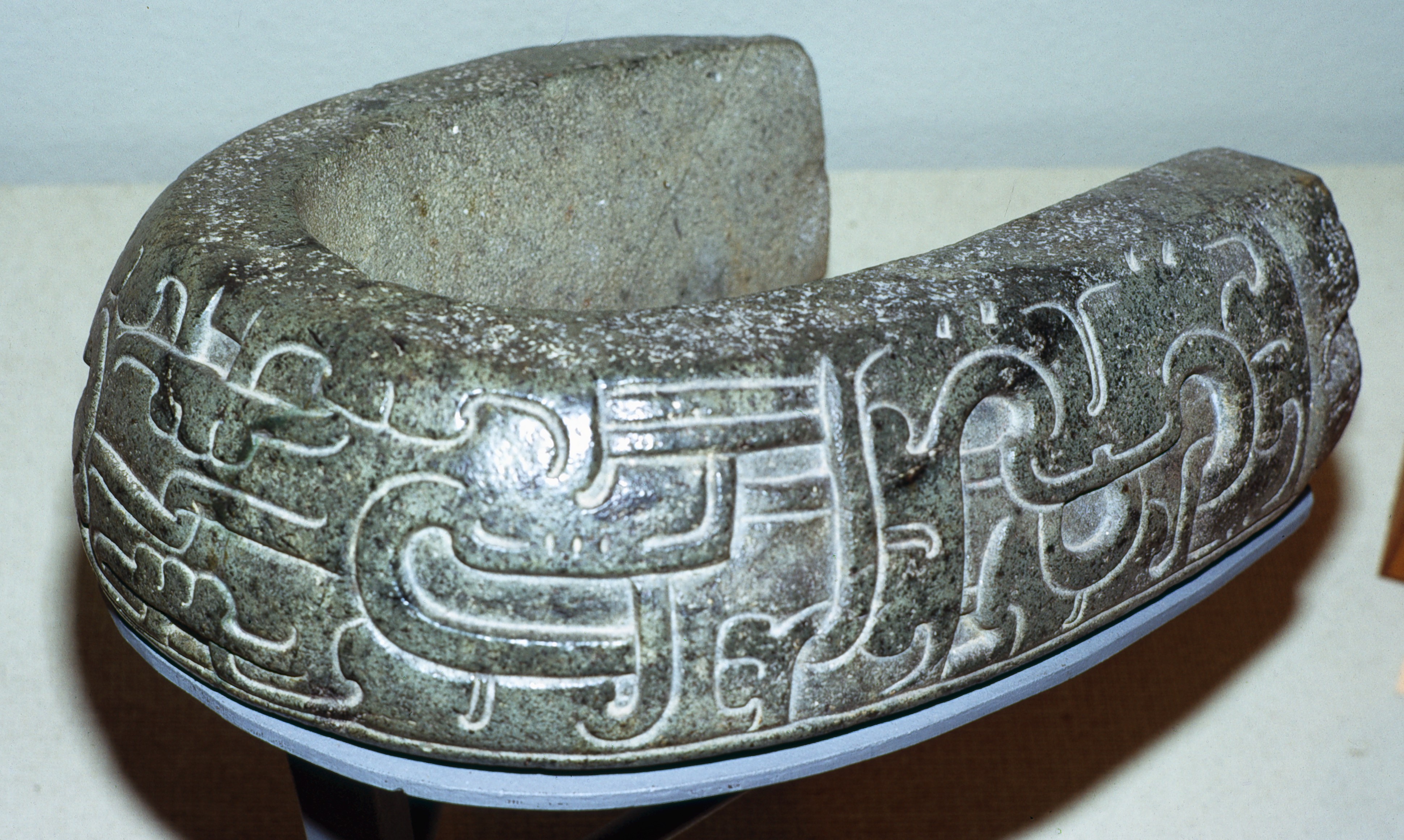 Yugo from Veracruz, Mexico (MNA Mexico)